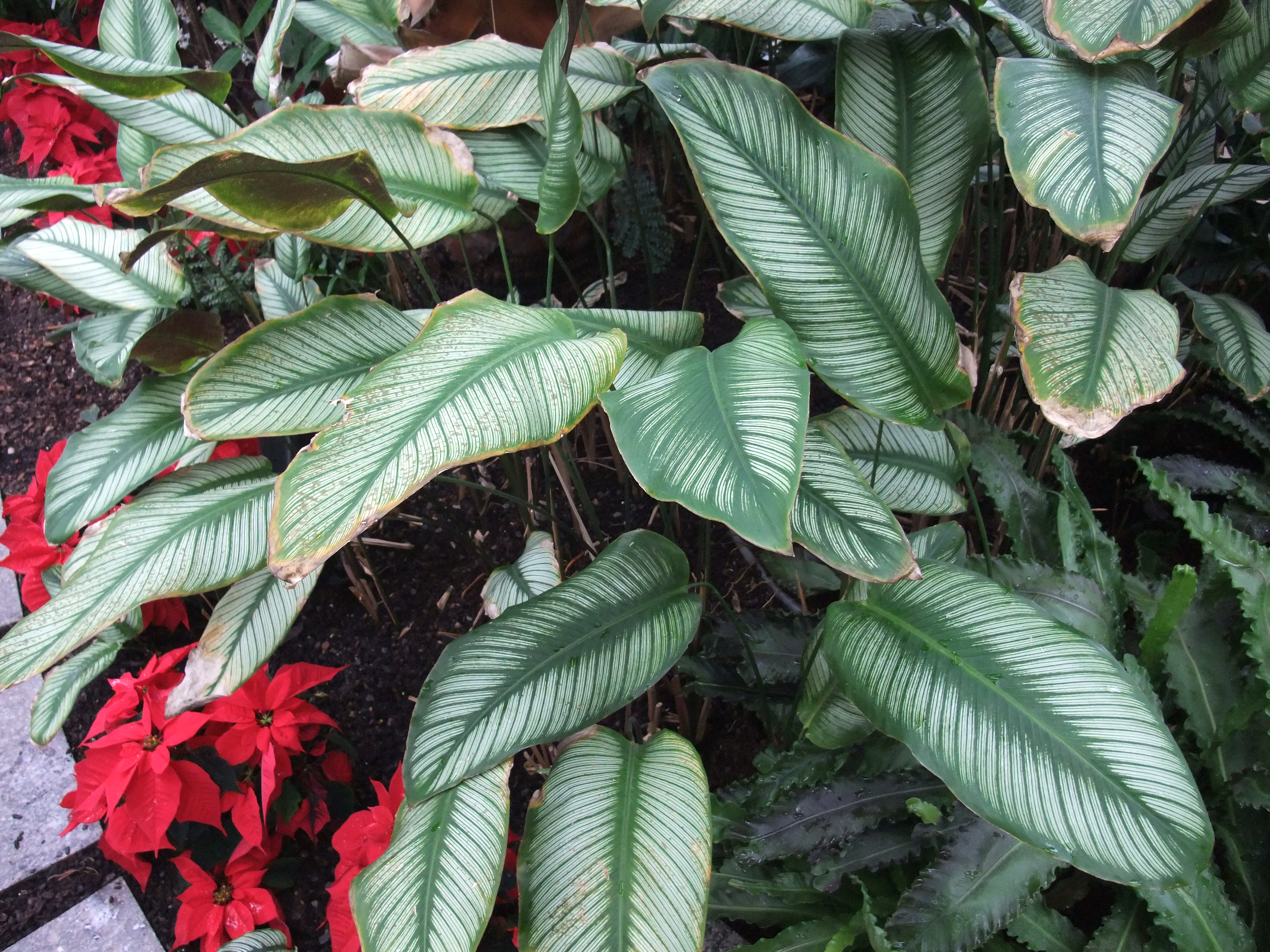 A photograph of Calathea ornata 'Roseo-lineata'.